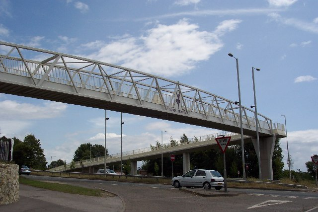 Jade's Crossing, Detling, Kent. A plaque beside this bridge reads: "Welcome to Jade's Crossing. This footbridge is the result of a twenty year campaign by the People of Detling. It was constructed following the deaths of Jade Hobbs and her Grandmother Margaret Kuwertz who were both killed crossing this road on Saturday 16th December 2000. This brought the number of pedestrians killed at this crossing to four. The A249 is now a strategic dual carriageway linking two motorways. Built in 1962 it cut the village of Detling in two. No provision was then made for a proper pedestrian crossing at this focal point of the Pilgrims Way and the North Downs Way footpath. Funds for this footbridge were raised from public subscription, by Maidstone Borough Council and Kent County Council. In making a donation and using this safe crossing you will be helping the Jade fund maintain its work in helping to make our roads safer for all. This crossing is dedicated to those pedestrians who have died crossing the A249 here at Detling. Jade Hobbs, aged 8 years, 16th December 2000 - Margaret Kuwertz aged 79 years 16th December 2000 - Souraya Hutchinson, aged 74 years, 16th December 1986 - Fred Mall, aged 74 years, 23rd December 1974. Rest In Peace." How much we care for our cars, how little we care for our communities.